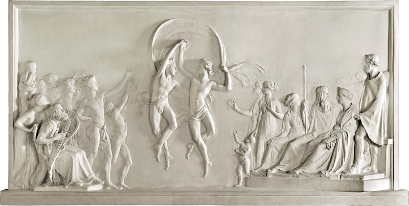 This is one of the scenes representing episodes in epic poetry, for which Canova drew his inspiration from Cesarotti’s translations of Homer’s works. Here, the sculptor completely foregoes narration, eliminating all decorative elements and focusing entirely on tersely rendering the event, with the intention of representing the classical spirit that is the well-spring of his art. The episode is taken from Canto VIII of the Odyssey, and gives the sculptor the opportunity to interpret a typically Neoclassical subject, the dance, drawing inspiration from Pompeian models. The bas-relief was reproduced in an engraving by Tommaso Piroli (engraver) and Vincenzo Camuccini (draughtsman): copperplate etching retouched with burin; 241 x 440 mm. Regarding the Rezzonico bas-reliefs, see entry for Justice.